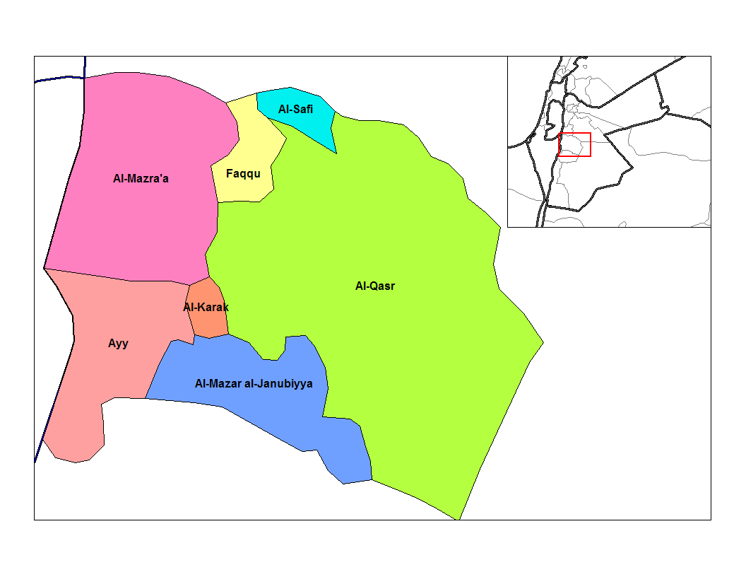 Map of the nahias of Kerak governorate in Jordan. Created by Rarelibra 21:05, 27 December 2006 (UTC) for public domain use, using MapInfo Professional v8.5 and various mapping resources.